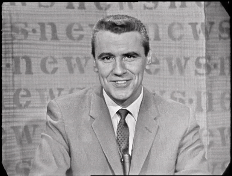 Screen capture of Scott Vincent from 1961, taken from a privately made, privately held demo tape, presently in possession of this author.